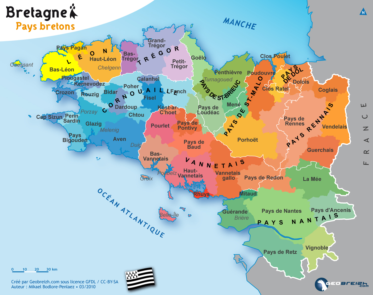 Map of the traditionnal regions of Brittany (France)